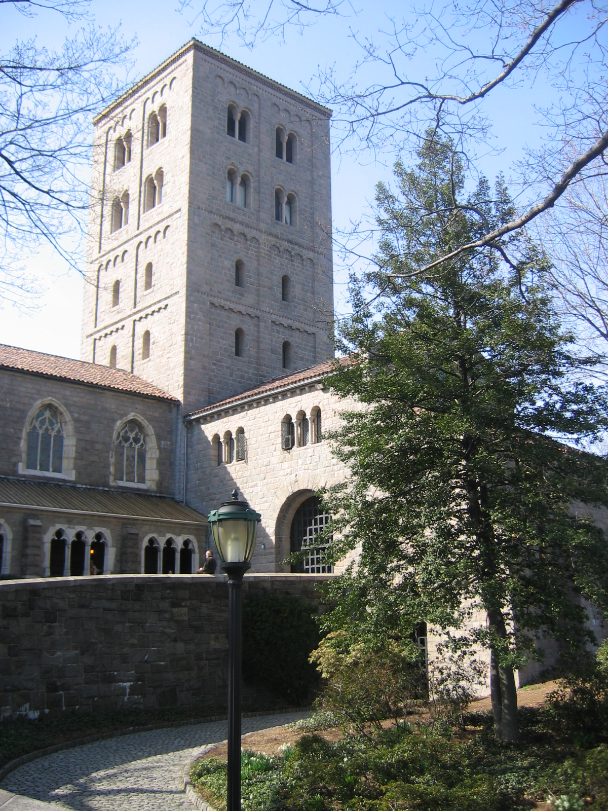 The Cloisters, Manhattan, NYC